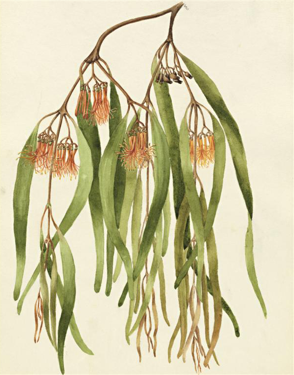 Plate depicting Loranthus miquelii (Amyema miquelii)